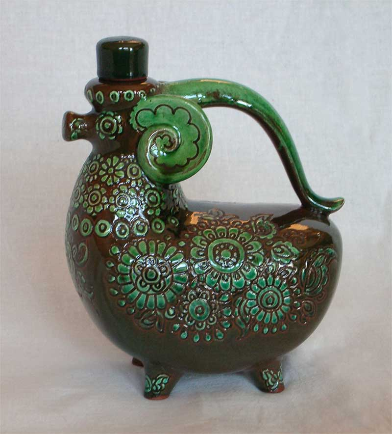 Majolica of the soviet sculptor Bronislav Bystrushkin (1926-1977). Lomonosov's Porcelain Factory, Leningrad, USSR